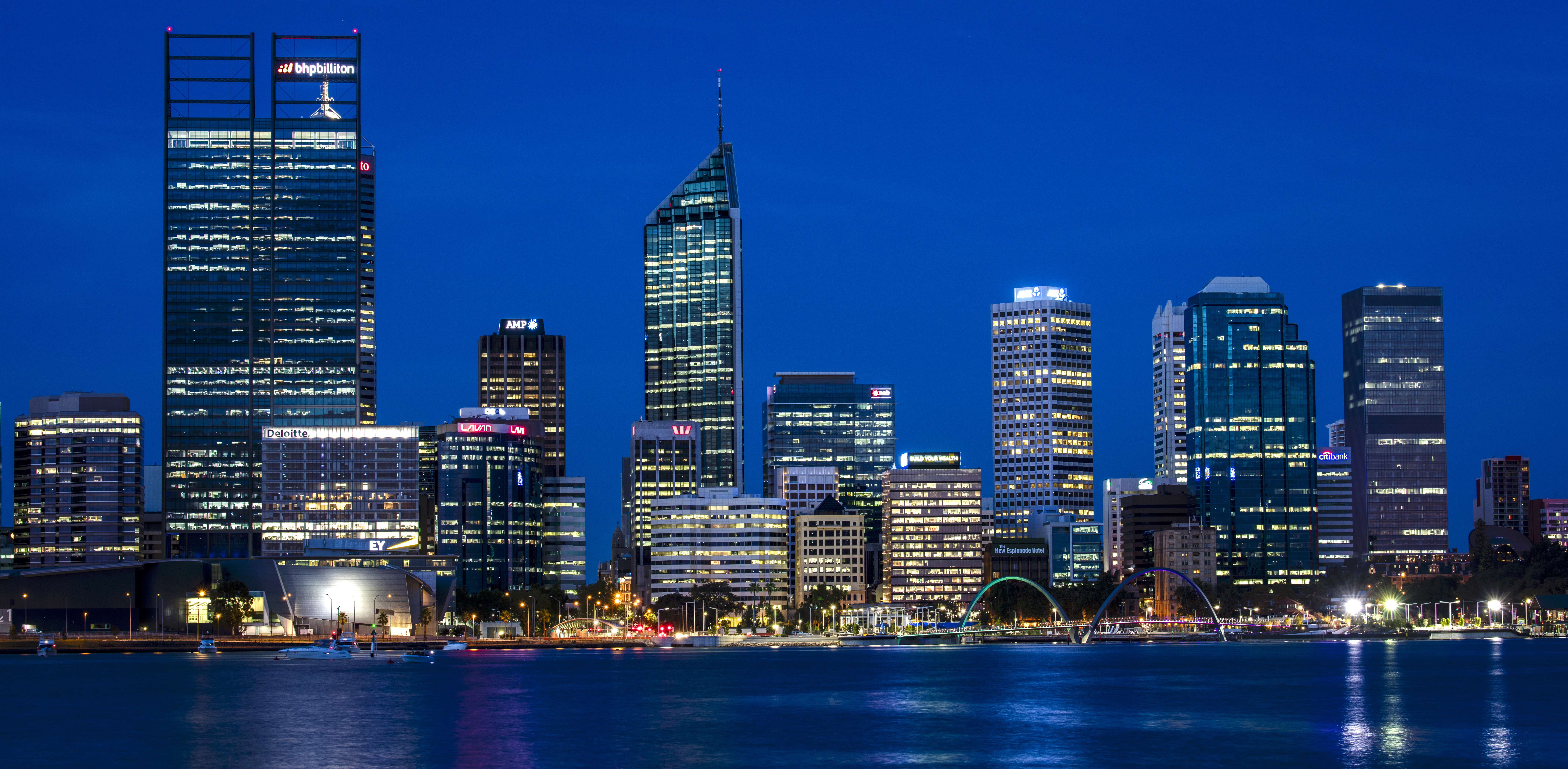 The Perth city skyline showing the new bridge and Elizabeth Quay, January 2016.